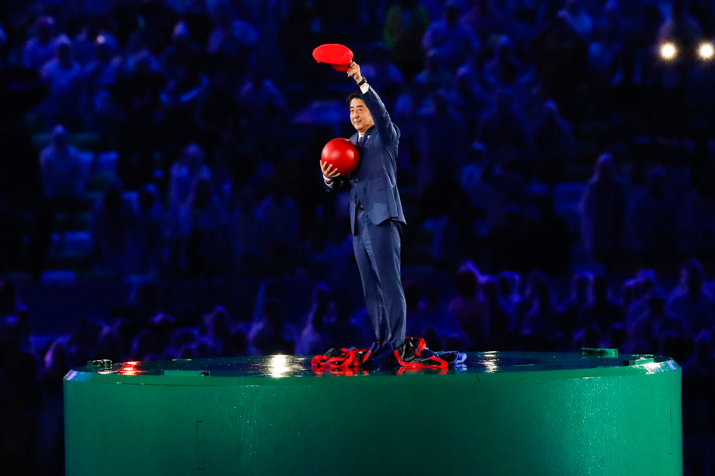 Rio de Janeiro - Cerimônia de encerramento dos Jogos Olímpicos Rio 2016, no Maracanã (Fernando Frazão/Agência Brasil)